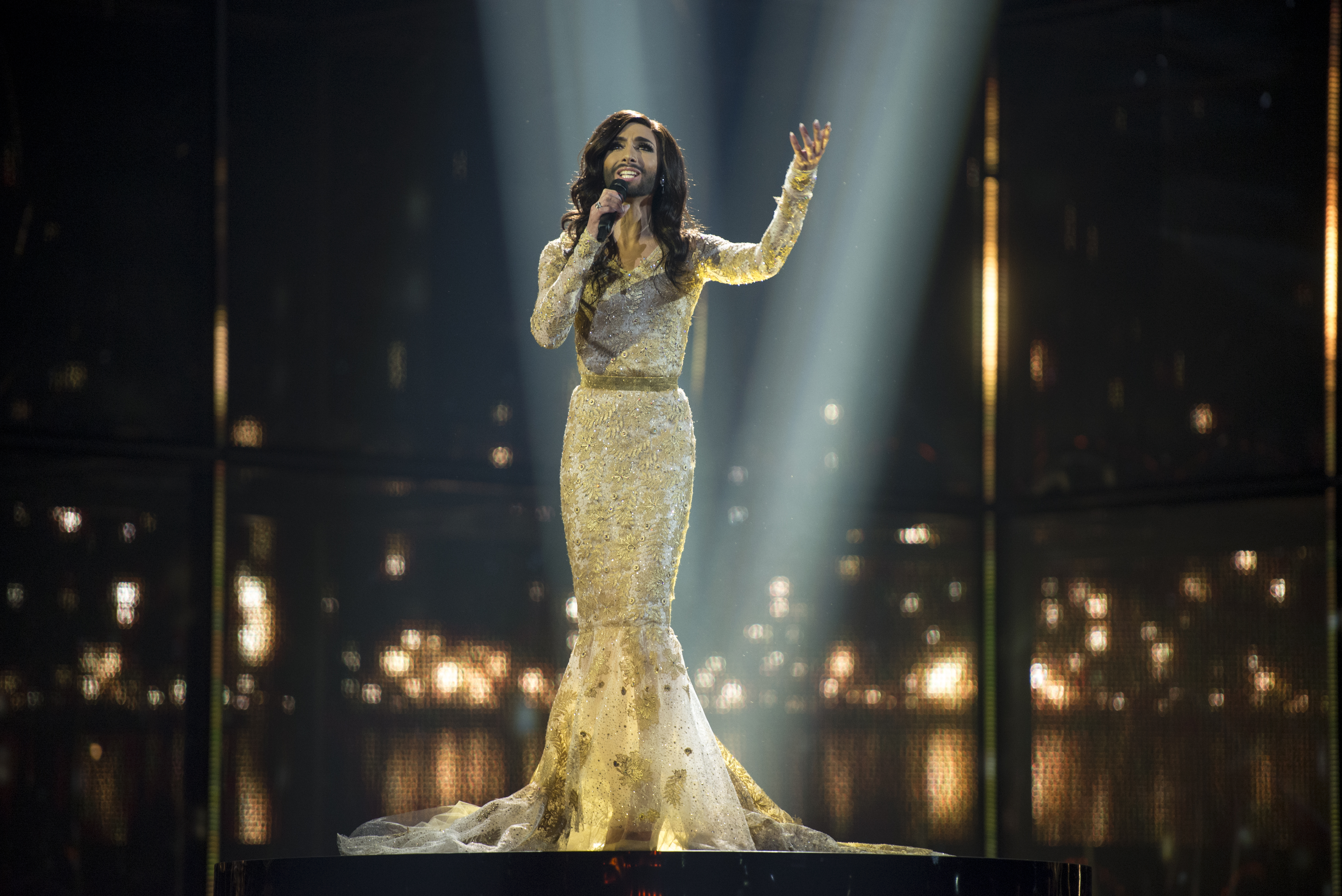 Conchita Wurst representing Austria with the song "Rise Like a Phoenix" during the first dress rehearsal of the second semi final of the Eurovision Song Contest 2014 Copenhagen. (Help translate this text)